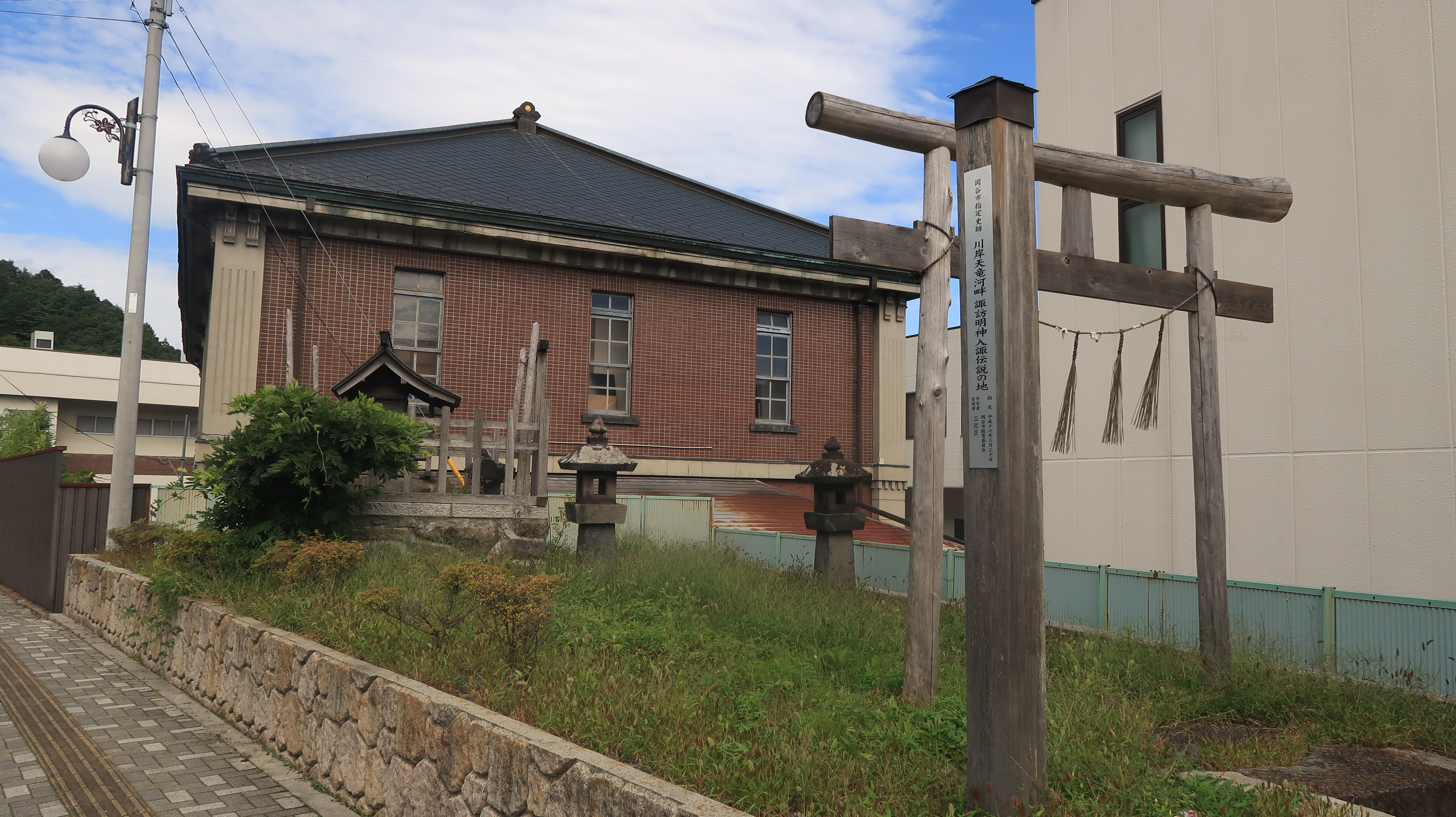 Fujishima Shrine (Okaya, Nagano)